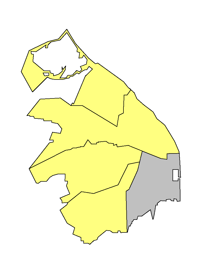 Sur oriente